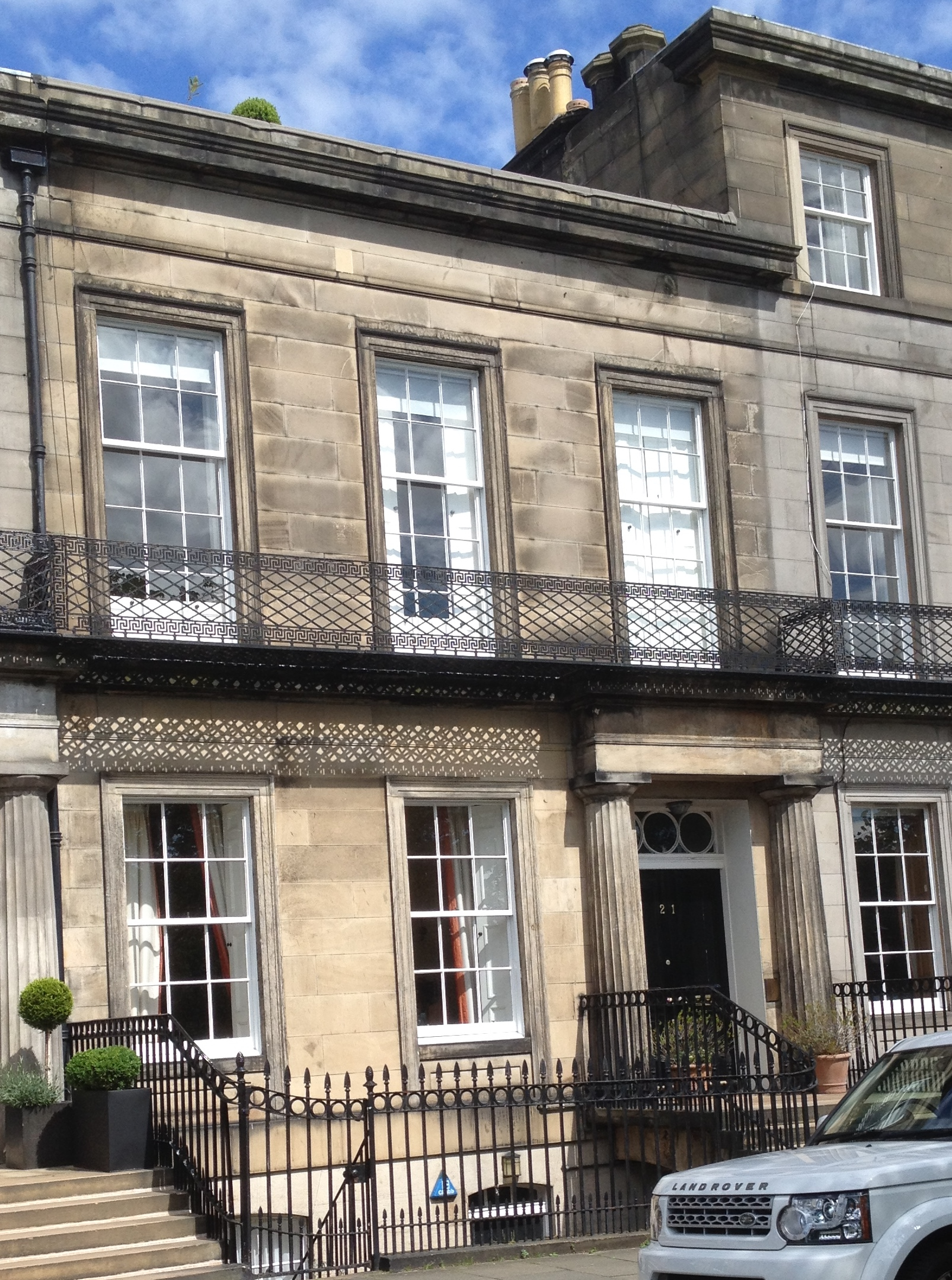 Front of 21 Regent Terrace, Edinburgh Wikidata has entry Q17567445 with data related to this item.